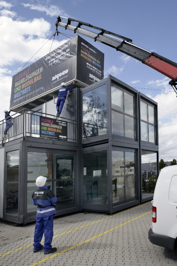 Setting Algeco Modular Building